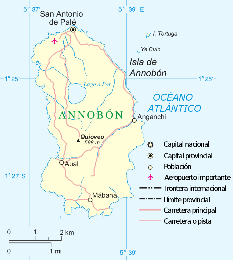 Maps of Annobon island, (Equatorial Guinea) in Spanish